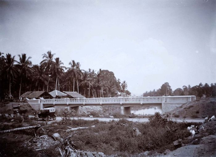 Bridge near Pamarayan